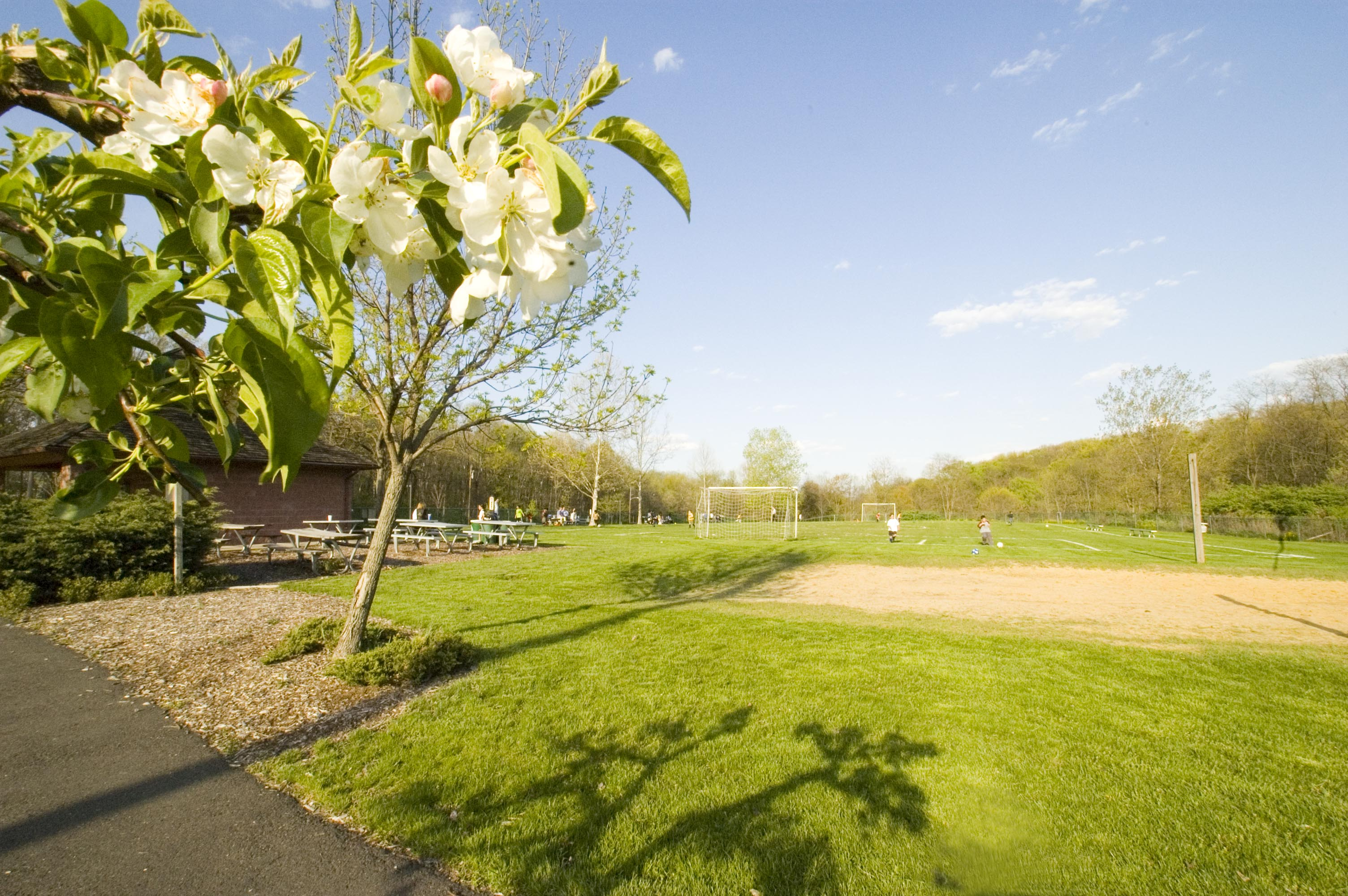 Central Park in Whippany, New Jersey located at Eden Lane and South Jefferson Road.